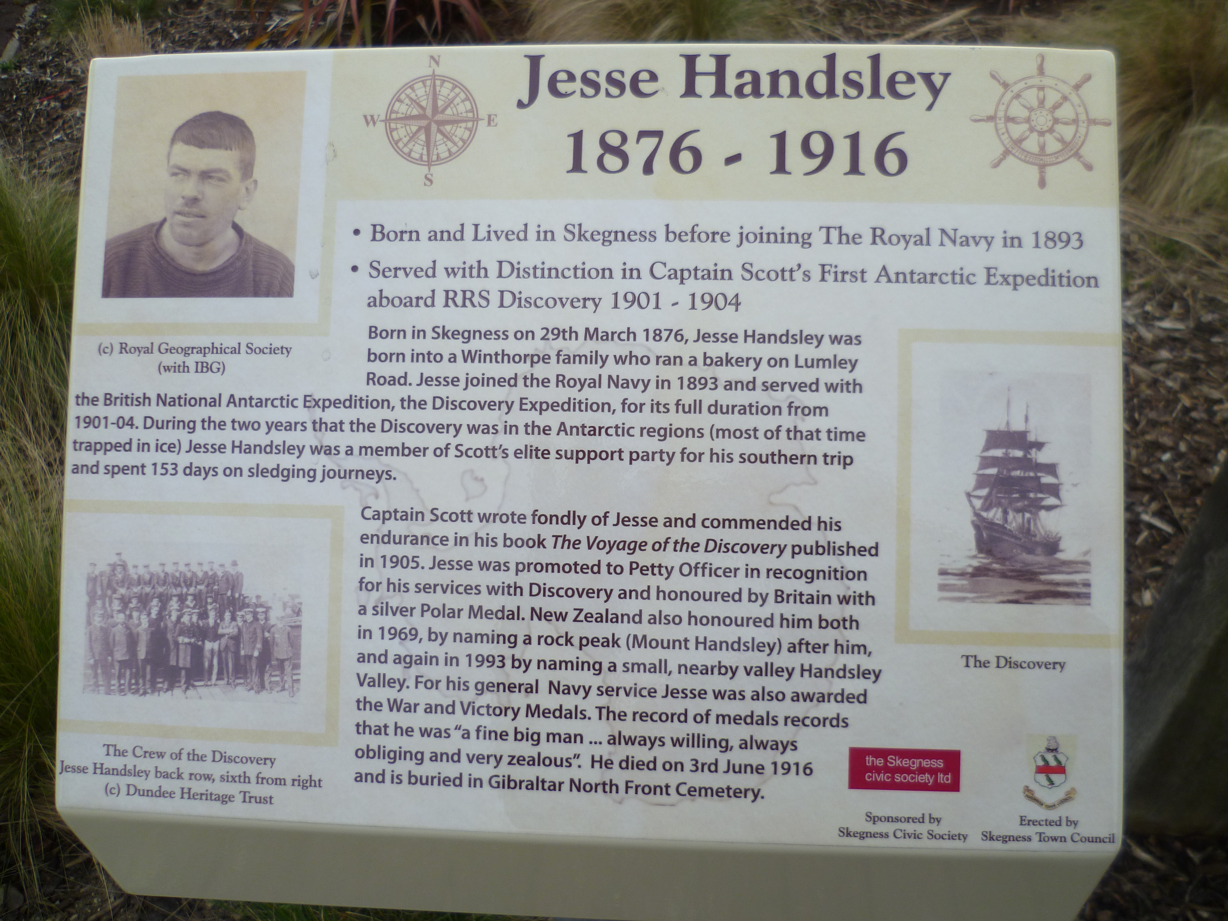 Memorial Plaque to Commemorate the achievements of Jesse Handsley, Antarctic explorer under Captain Robert Falcon Scott, with Discovery Expedition 1901-1904, also knew as the British National Antarctic Expedition.